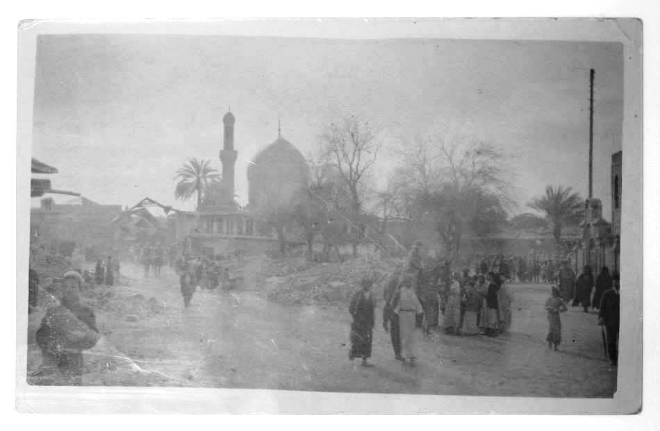 Street Scene with Dome & Minaret, in baghdad, Iraq, showing a street scene in Baghdad taken on the day of the city's capture, with Al-Ahmadiya Mosque in the background 1917